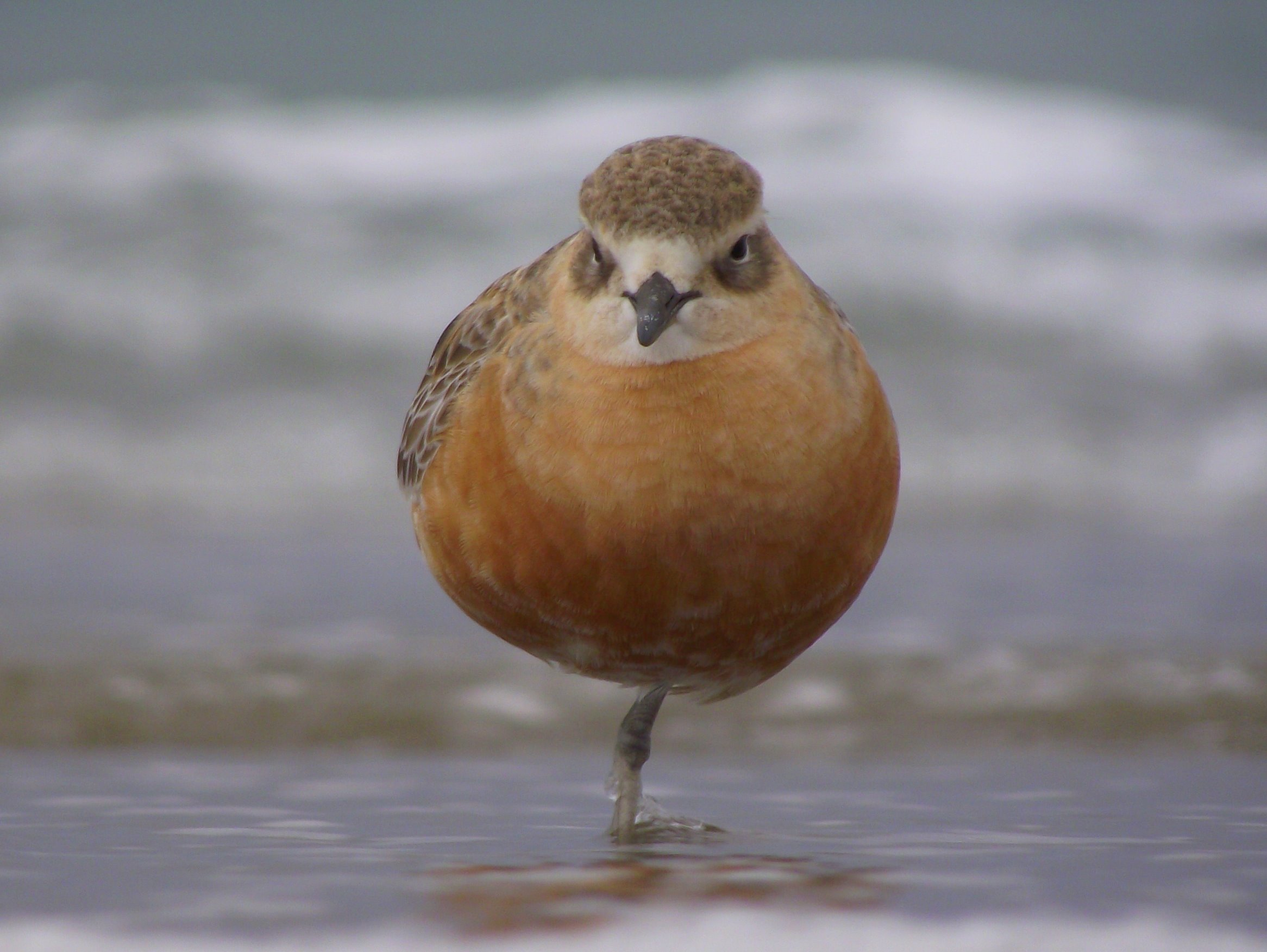 A fully mature male New Zealand Dotterel